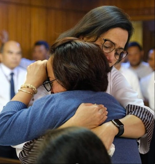 Indonesian Minister of Finance Sri Mulyani comforted one of the families of the victims of the crashed Lion Air Flight 610